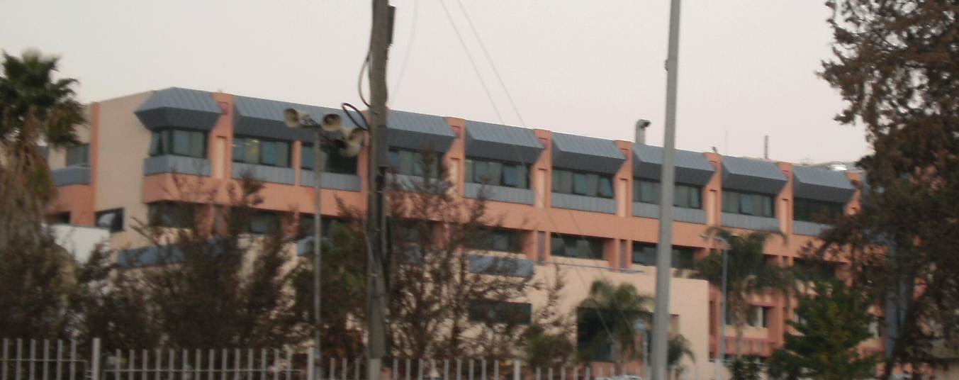 Poriya hospital, Israel